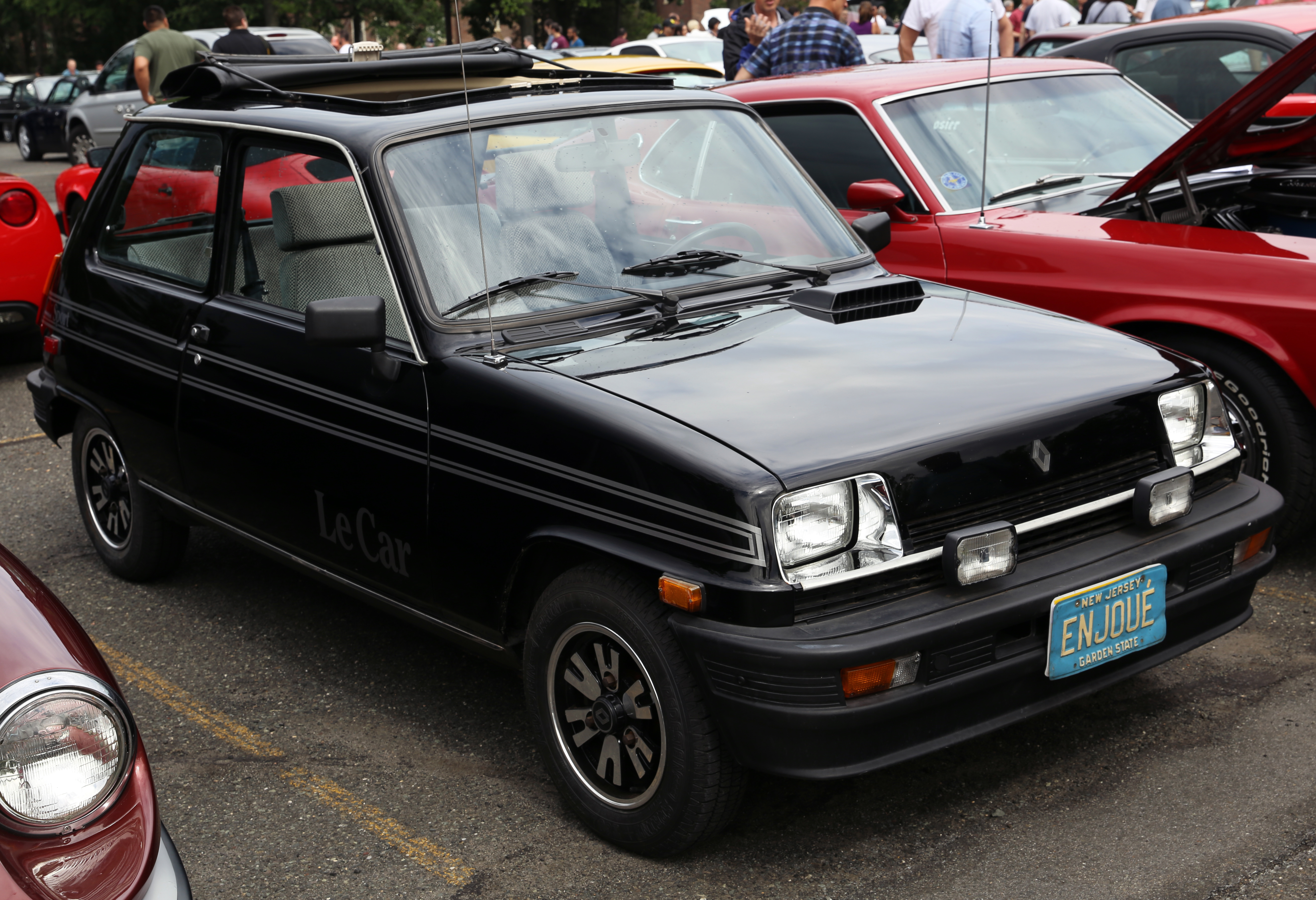 1983 Renault Le Car Sport, with the optional sunroof and nearly all other available extras.